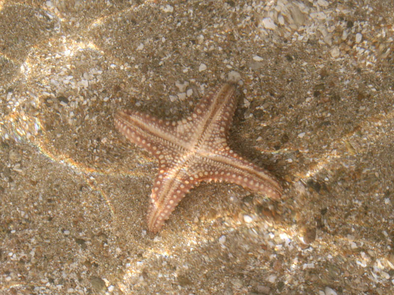 Unusual four-legged Caribbean red cushion seastar (Oreaster reticulatus), Mosquito Pier, Vieques, PR. Bottom side up.